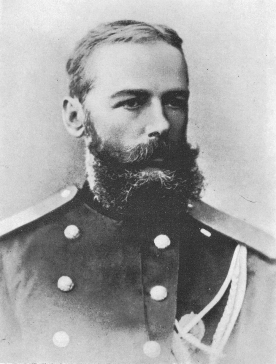 Photograph of the Finnish senator Alexander Järnefelt (1833–1896).